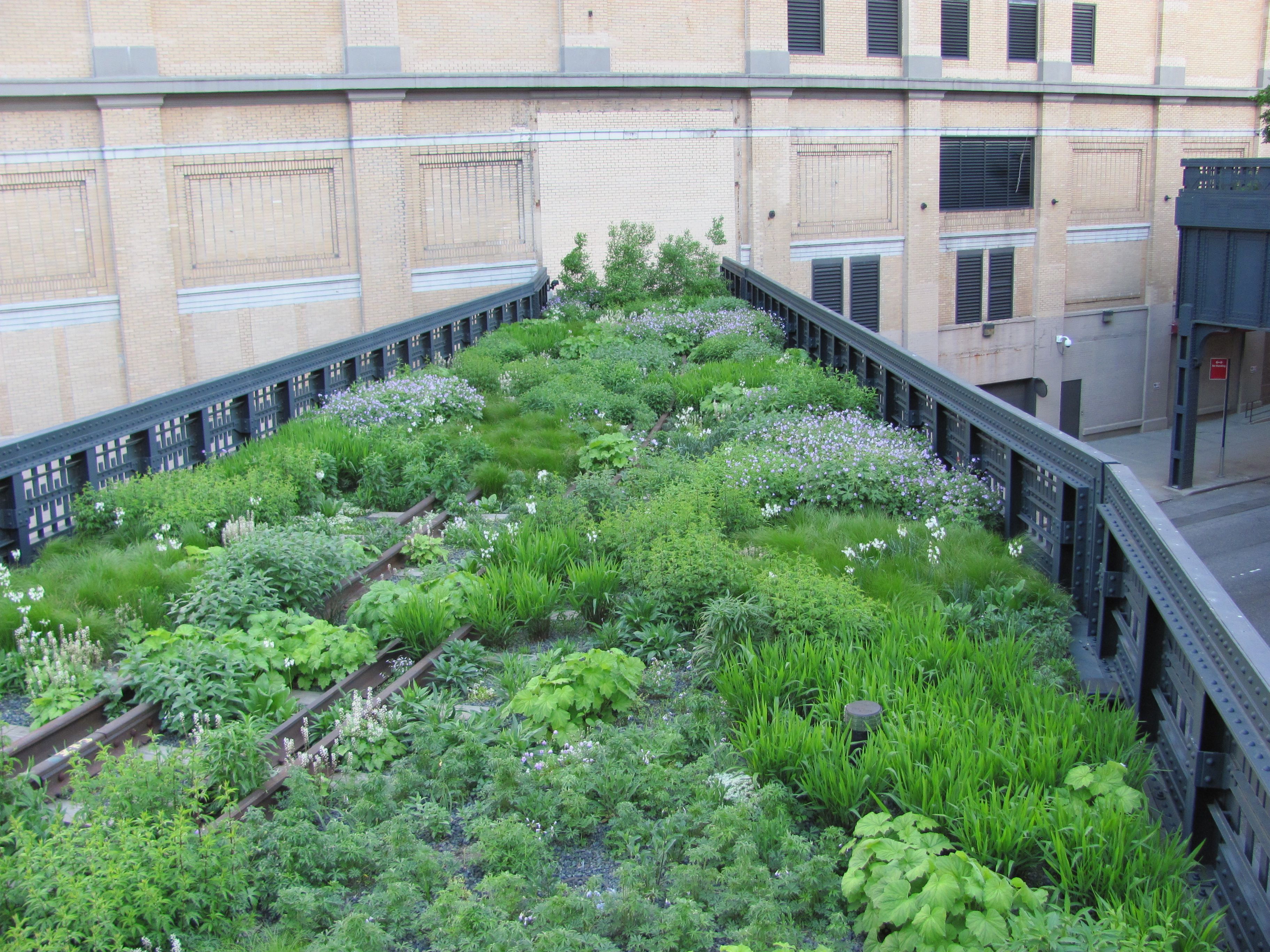 Former factory siding